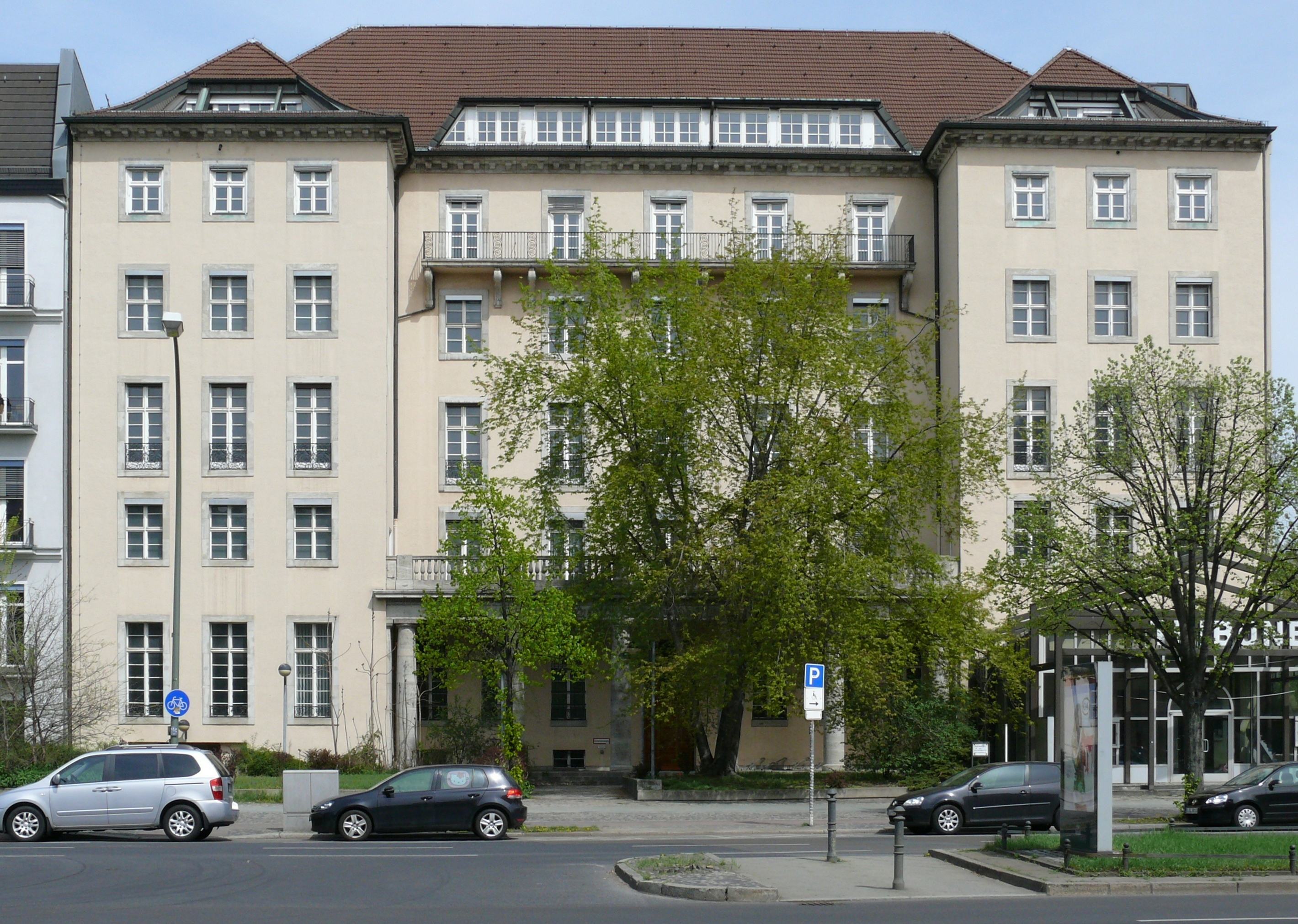 Berlin-Charlottenburg Otto-Suhr-Allee Haus Ottilie von Hansemann